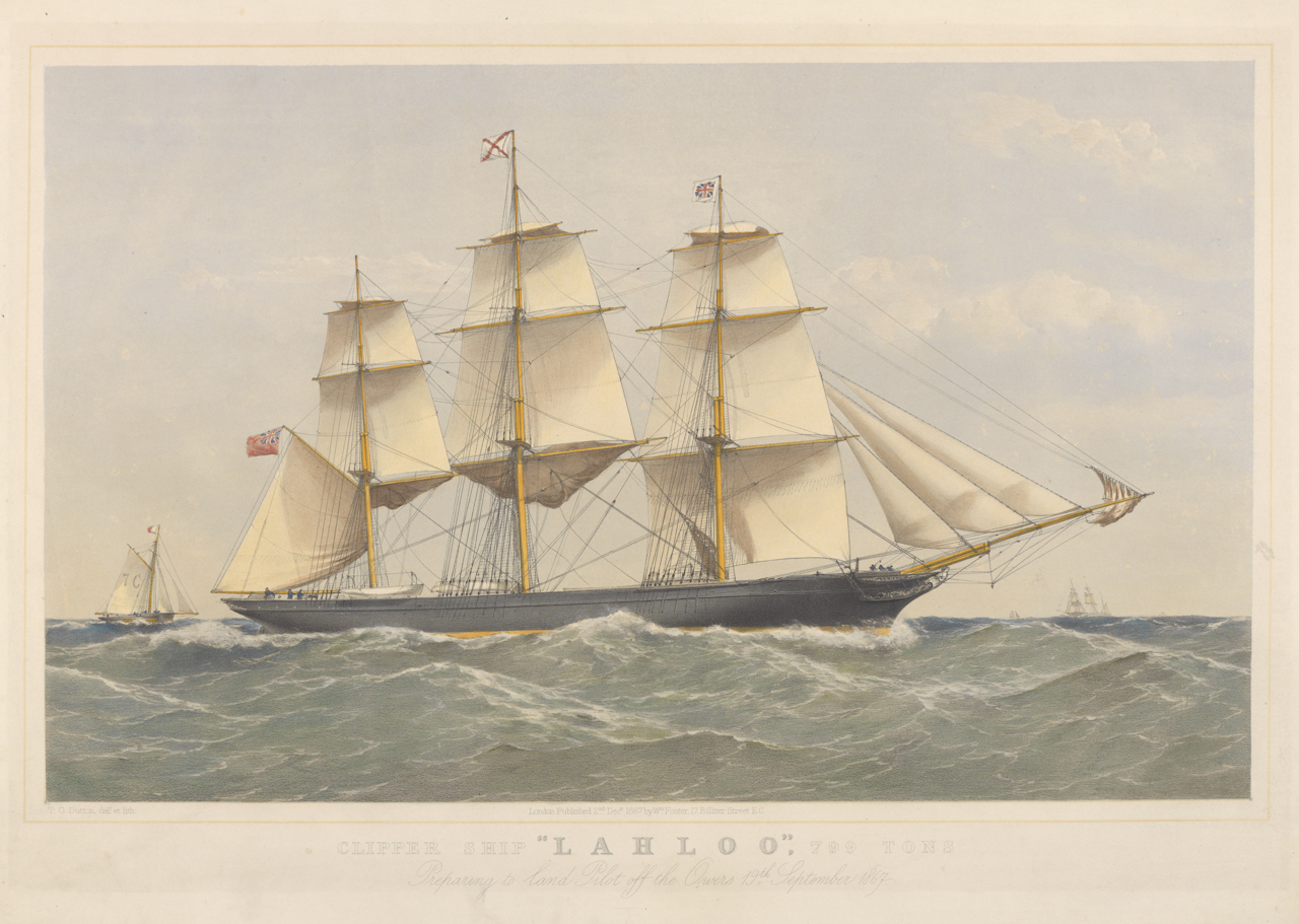 Clipper Ship Lahloo, 799 Tons, Preparing to land Pilot off the Owers 19th September 1867 Hand-coloured. Clipper Ship Lahloo, 799 Tons, Preparing to land Pilot off the Owers 19th September 1867